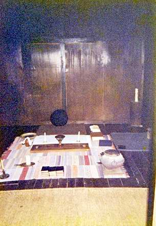 The chapel in Takamori Soan,Nagano Prefecture, Japan, a Christian centre of prayer, field work and interreligious meeting run by late Fr. Vincent Shigeto Oshida, Dominican.